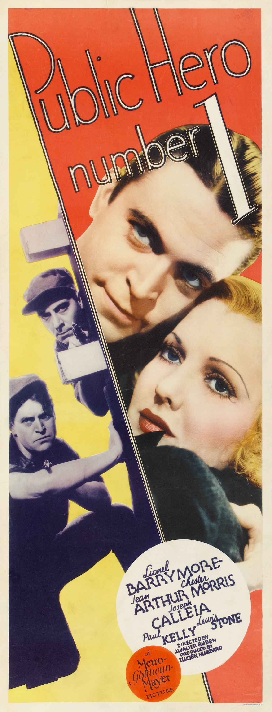 Poster for the 1935 film Public Hero Number 1, starring Chester Morris, Joseph Calleia and Jean Arthur